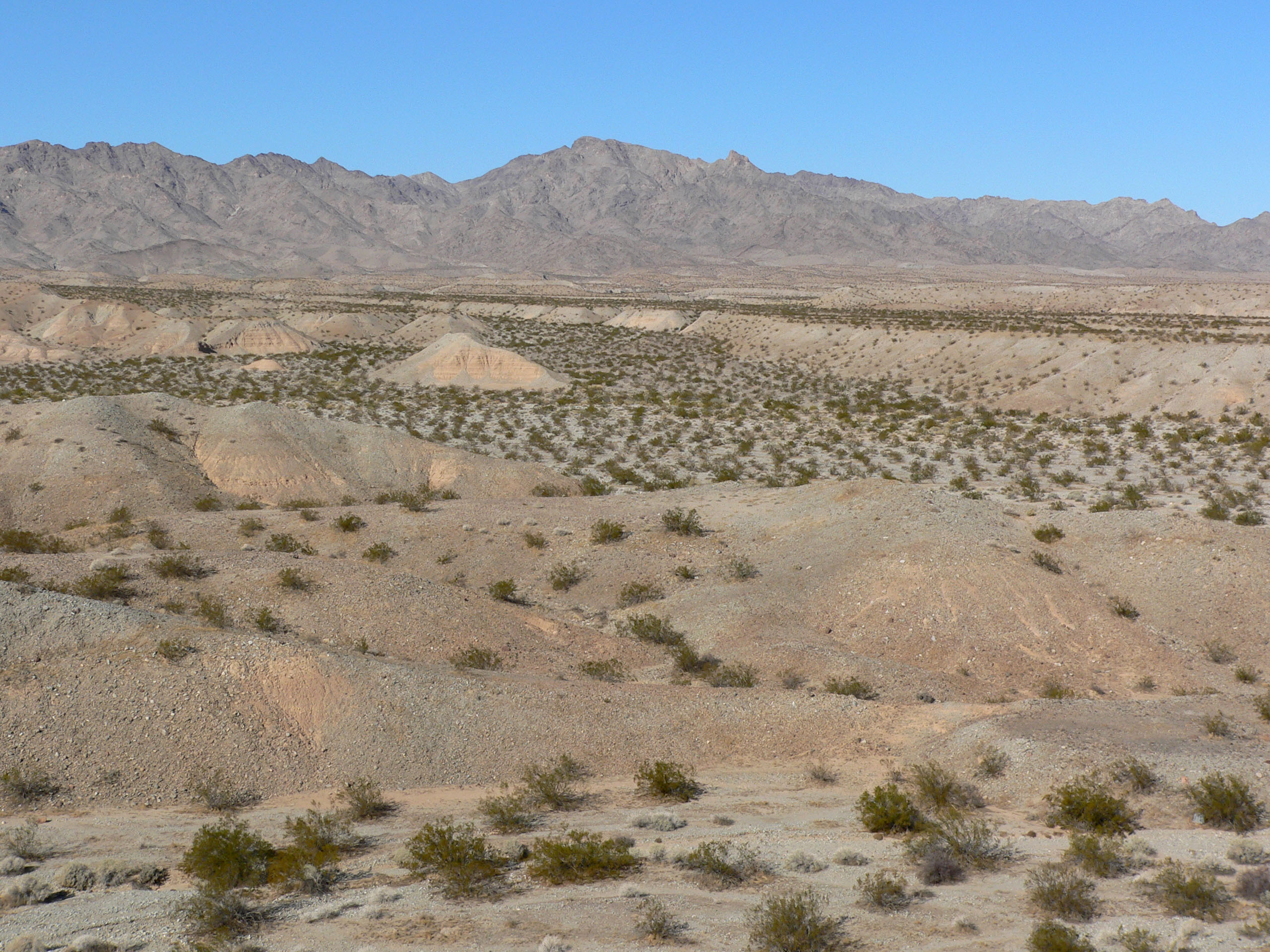 Large wash on the east side of the southern Dead Mountains, near where the Needles Highway meets the River Road in California